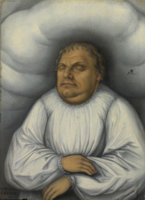 copy after Lucas Cranach the Younger